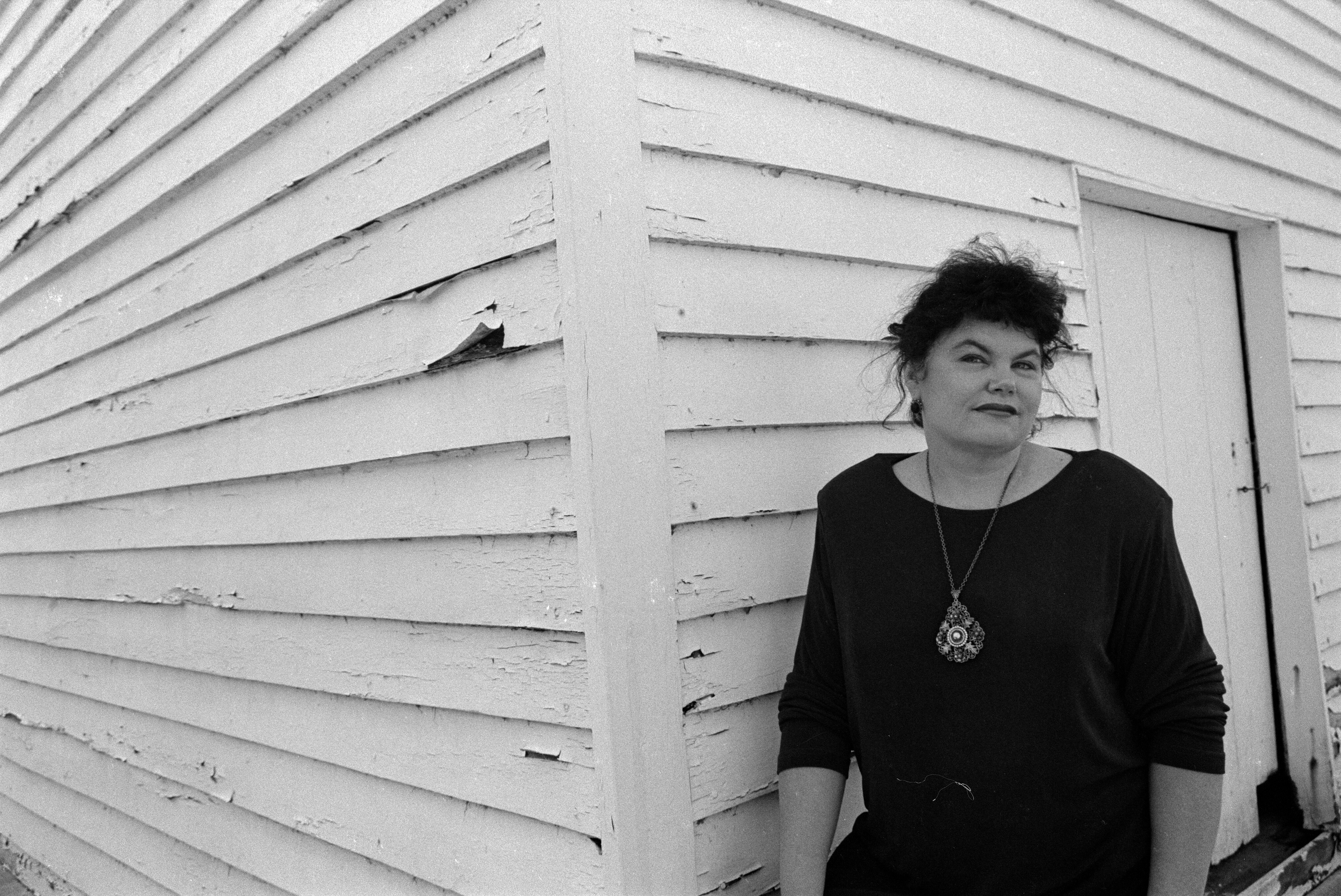 Sharyn McCrumb, circa 1997. Keswick, VA. Photo by Osmund Geier